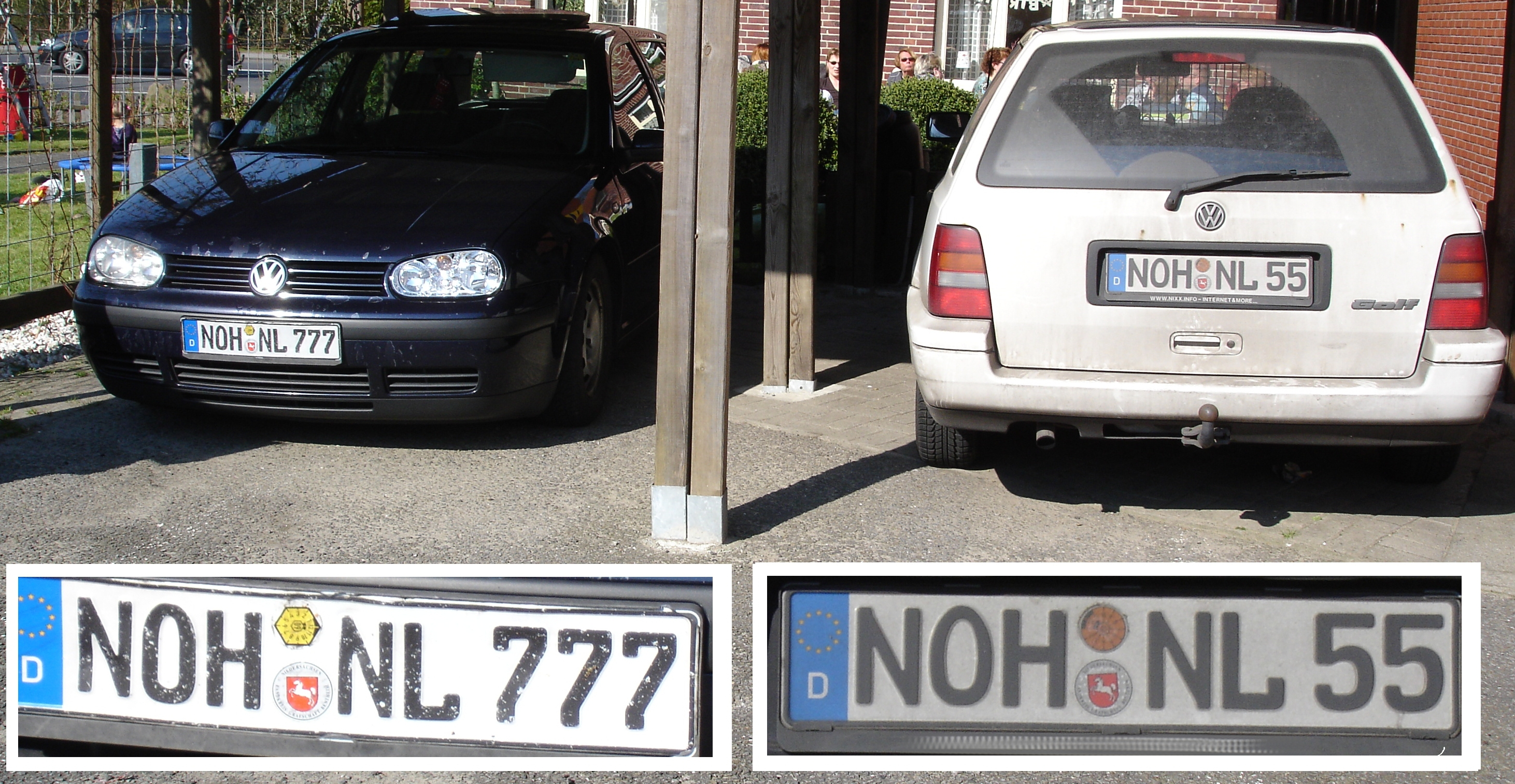 Custom licence numbers